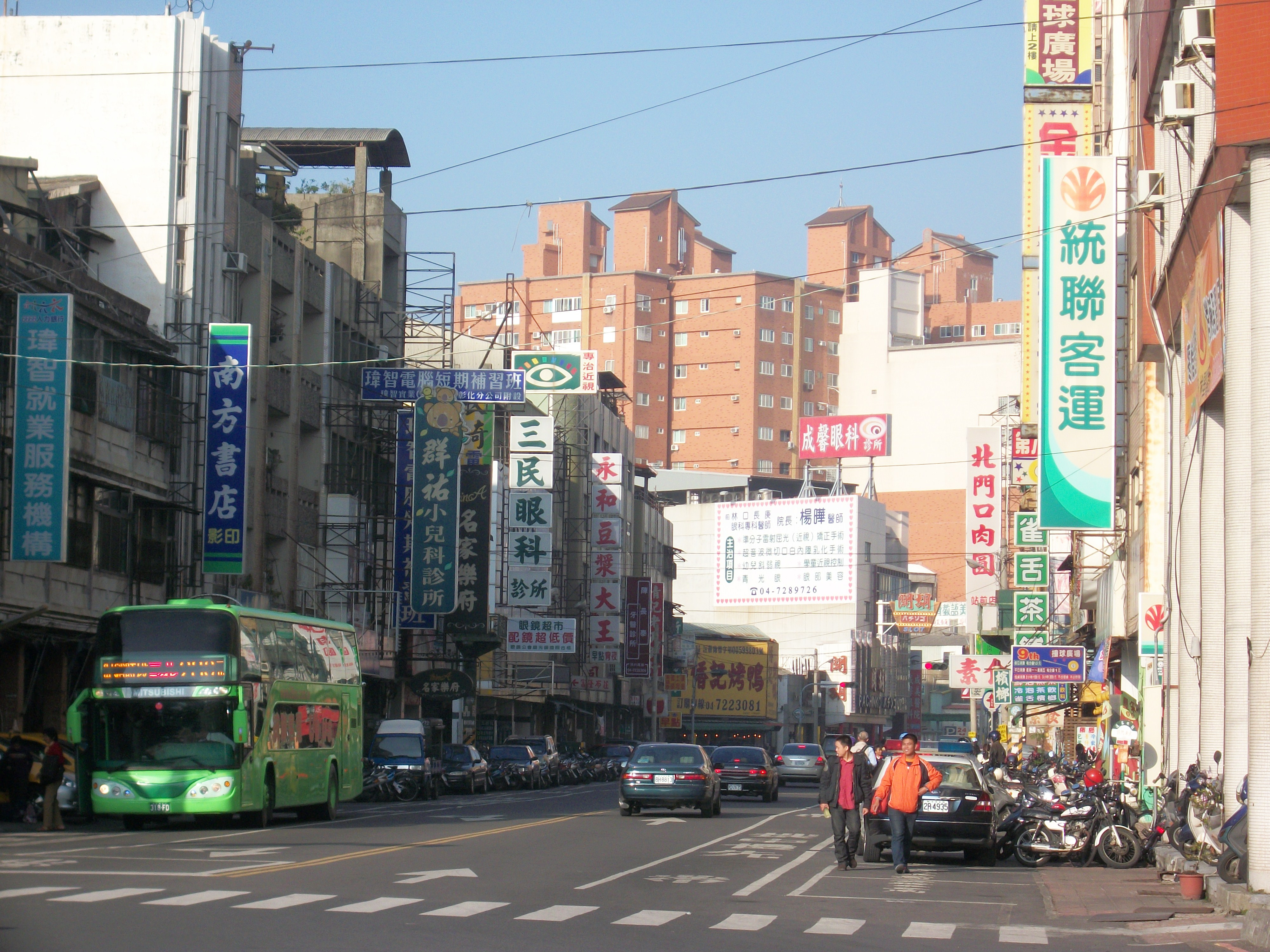 Zhongzheng Rd. Section 1 in front of Changhua Station,its located Changhua City.